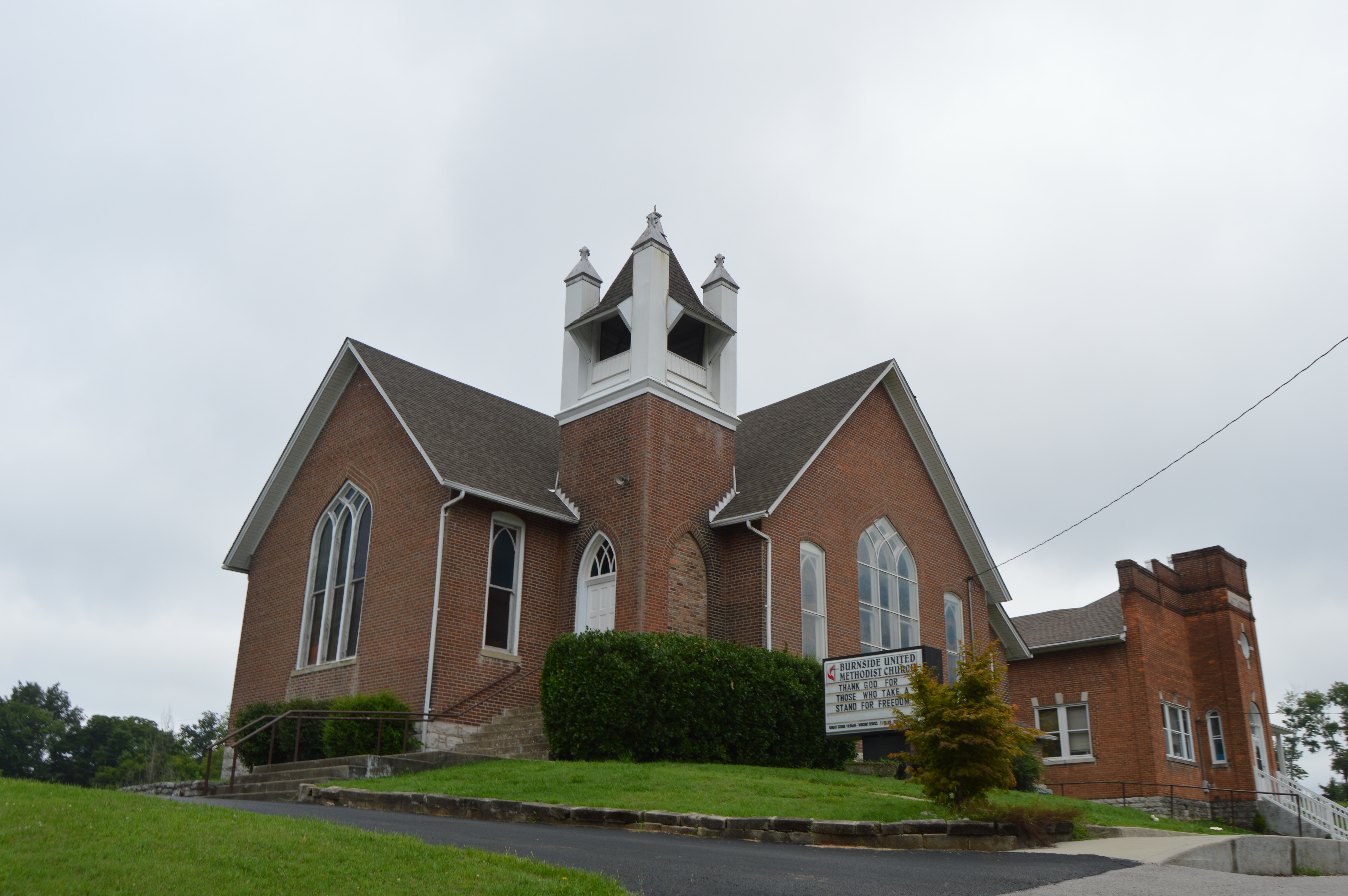 Front and southern side of the Burnside Methodist Church, located on the western side of Central Avenue in Burnside, Kentucky, United States. Built in 1907, it is listed on the National Register of Historic Places, along with the Burnside Masonic Lodge building visible to the rear.